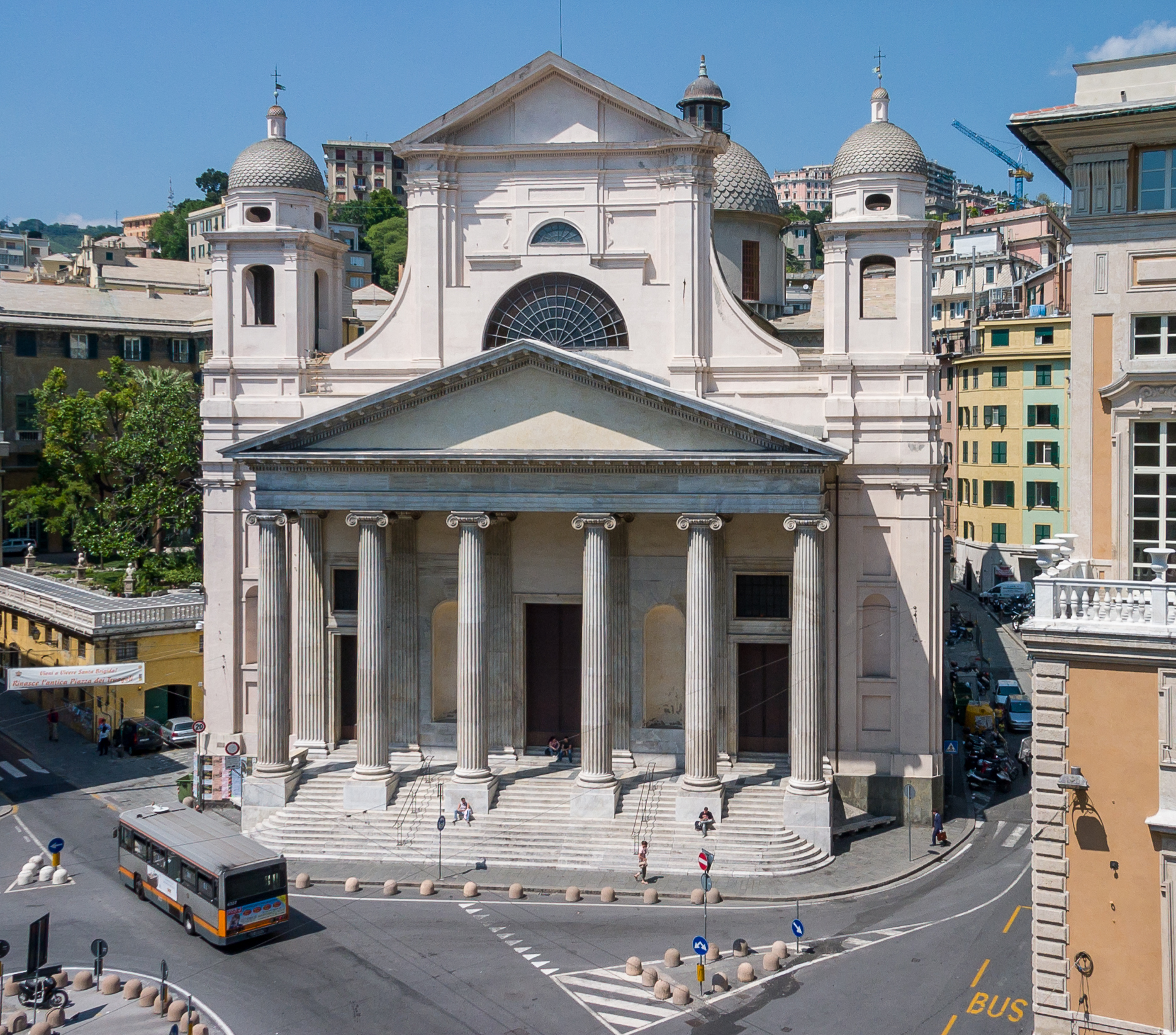 Genoa, Basilica della Santissima Annunziata del Vastato (2007)